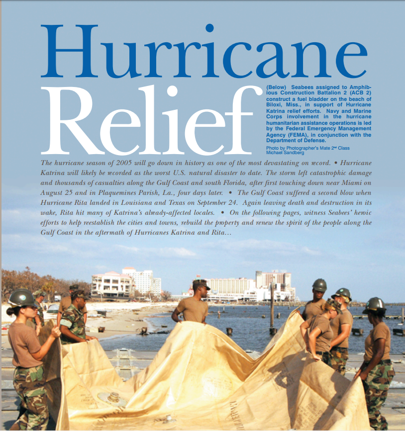 ACB 2 Hurricane Katerina